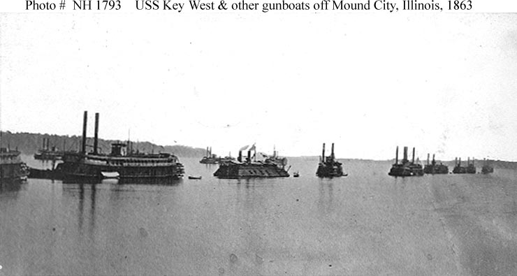 Mississippi Squadron Gunboats. Off the Naval Station at Mound City, Illinois, circa 1863. Ships present include USS Key West (1863-64) at left, with her number ("32") painted on her pilothouse; at least ten other "Tinclad" gunboats; one "City" class ironclad (just astern of Key West; and one "Timberclad" gunboat (seen beyond the ironclad's stern).